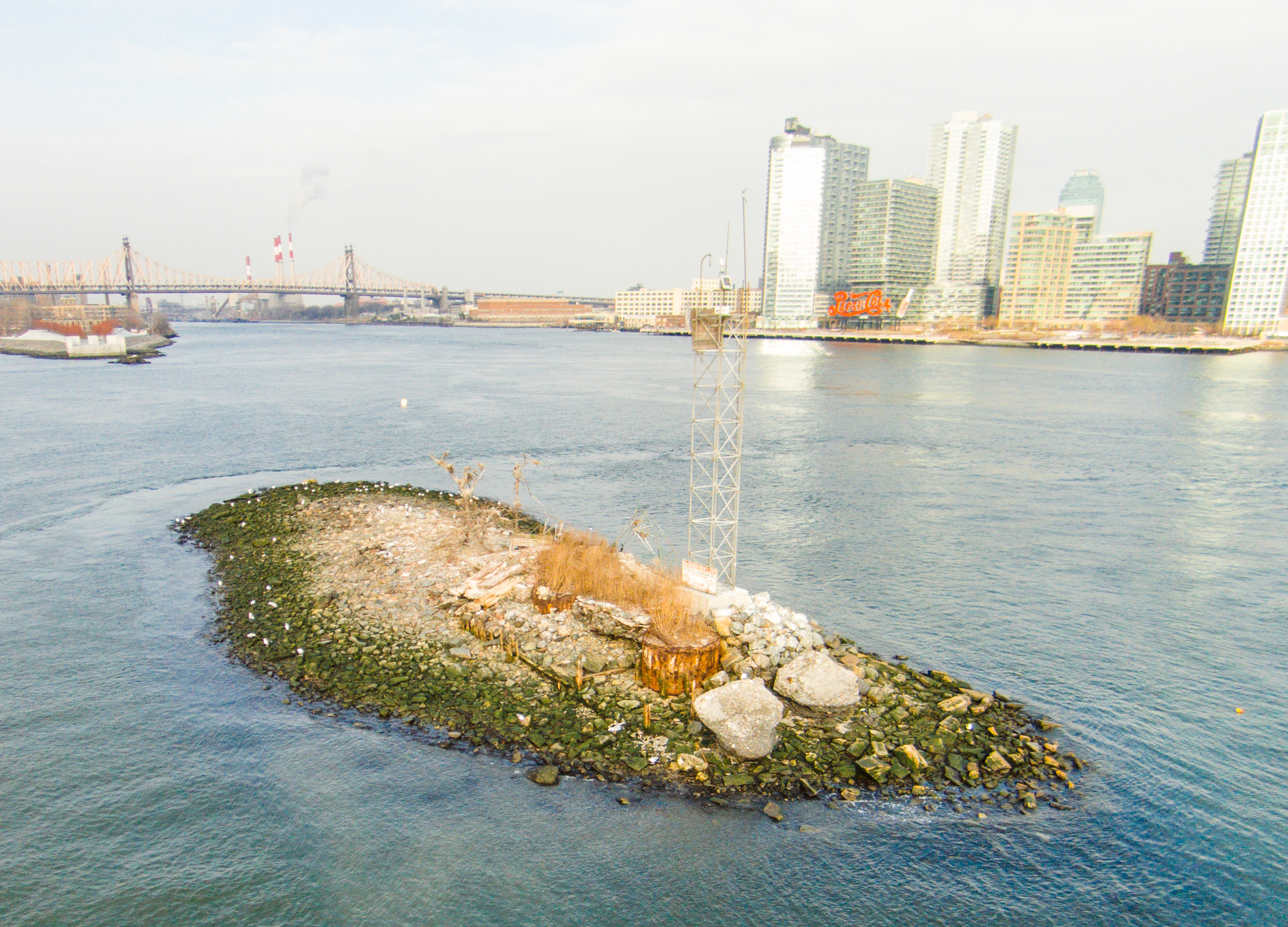 U Thant Island from the South, with the Queensborough Bridge, Roosevelt Island, and Long Island City in the background.